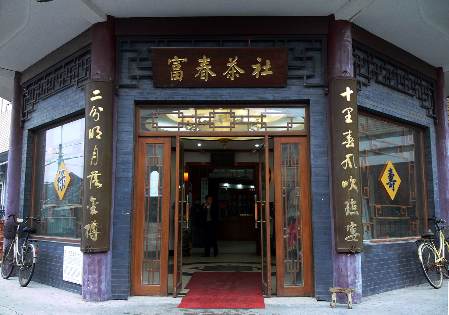 Fu Chun Tea House in Yangzhou扬州市淮扬第一楼-富春茶社